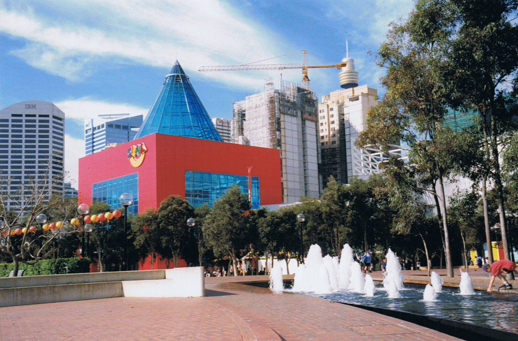 Sega World, Sydney